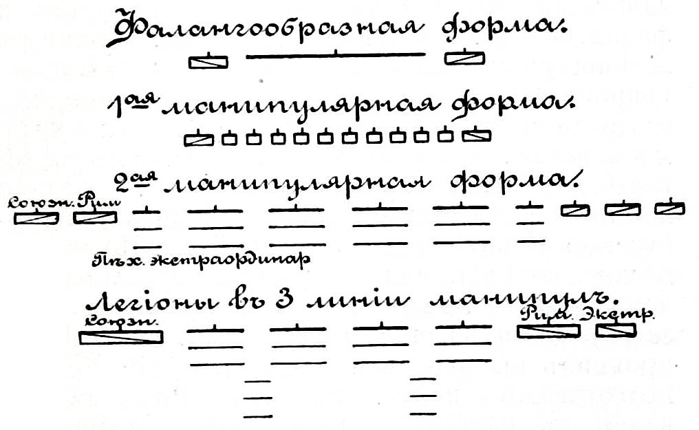 Military art (military science)